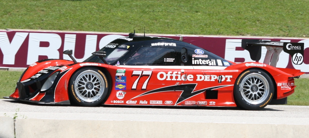 The Daytona Prototype of Brian Frisselle and Henri Richard racing in Grand-Am sports car at Road America.